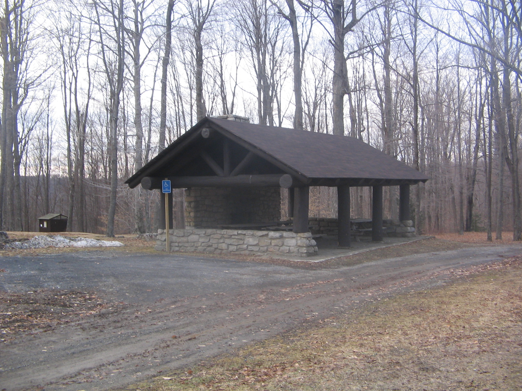 Civilian Conservation Corps-built picnic shelter at Patterson State Park, Potter County, Pennsylvania, USA. This is the larger pavilion, set back further from PA Route 44.